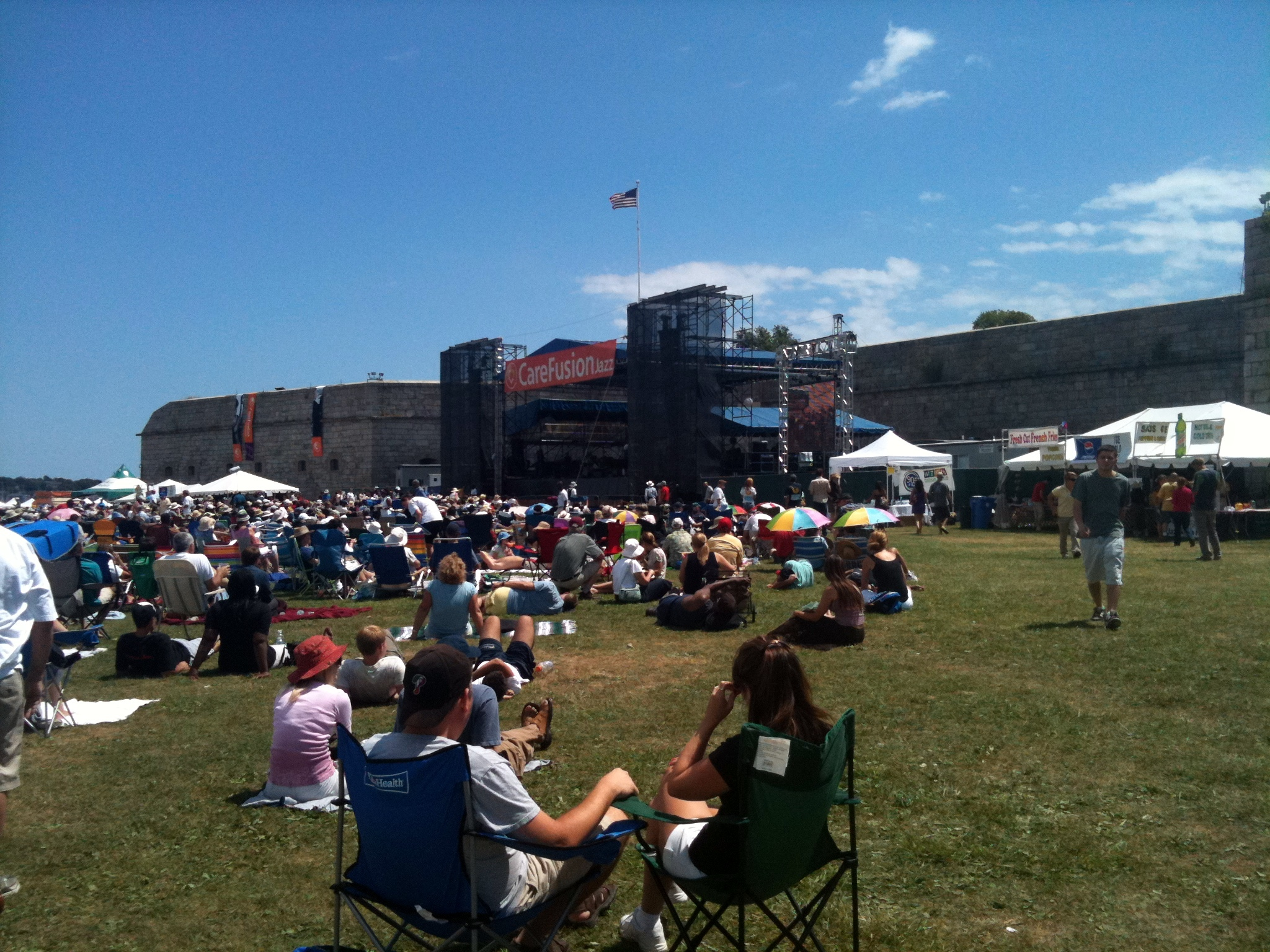 The view of the main stage from the general admission area